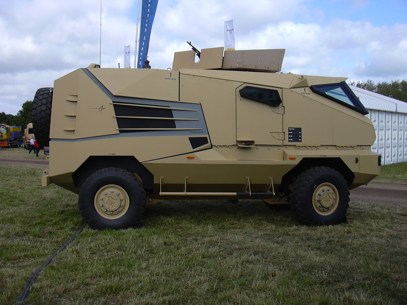 Lockheed Martin AVA as shown at the DVD show, Millbrook, UK.